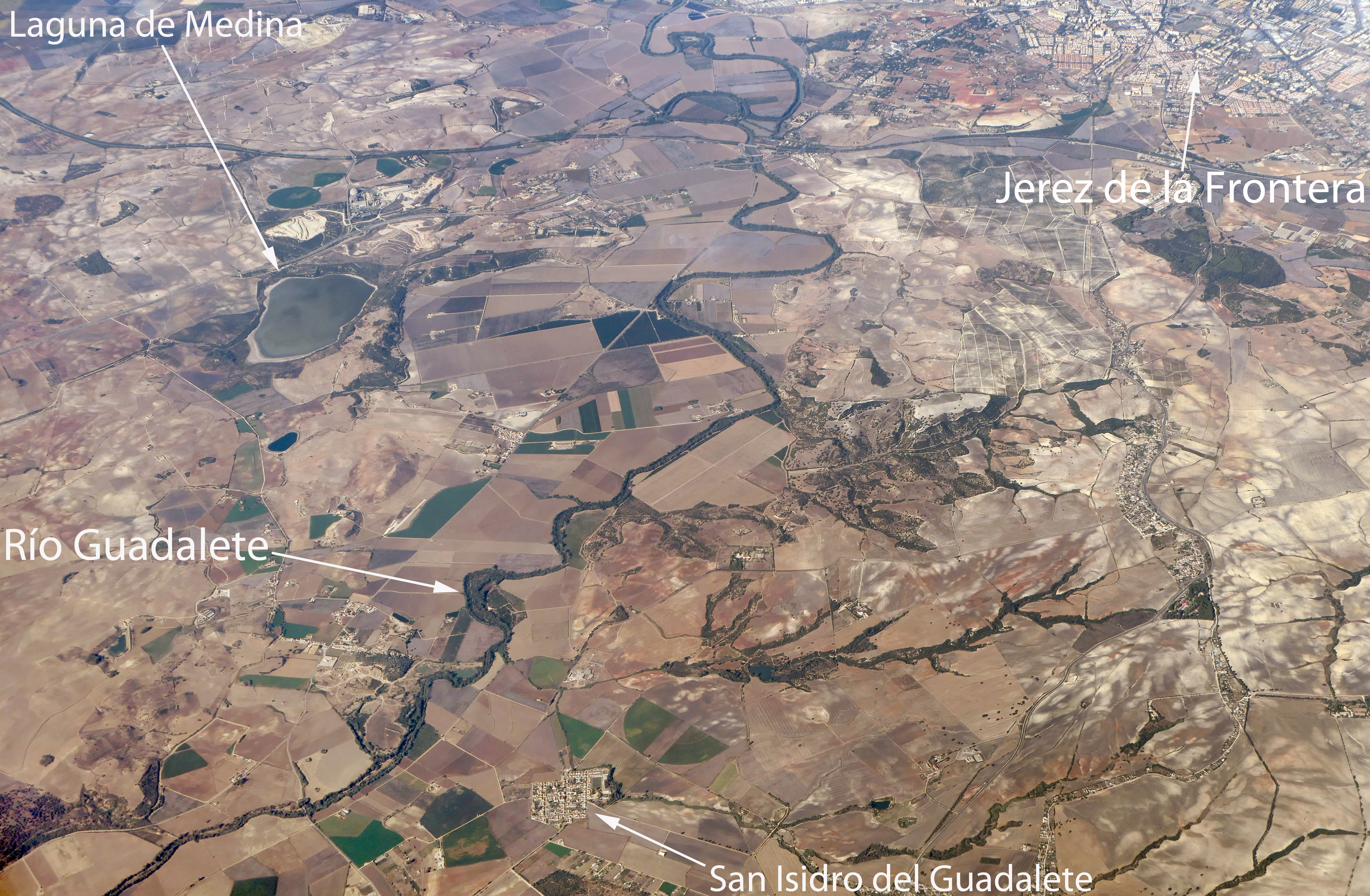 An aerial view of part of the river Guadalete near San Isidro de Guadalete and Jerez de la Frontera, in the south of Spain. The photo also shows the Laguna de Medina.